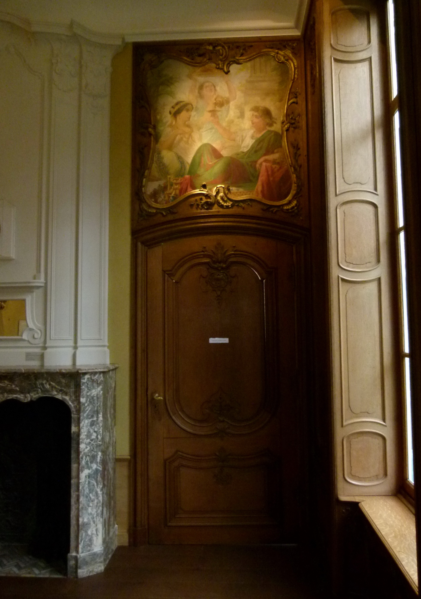 18th-century boiseries in Liège-Aachen Baroque style in the so-called TEFAF Pavilion, part of Museum aan het Vrijthof in Maastricht, the Netherlands.